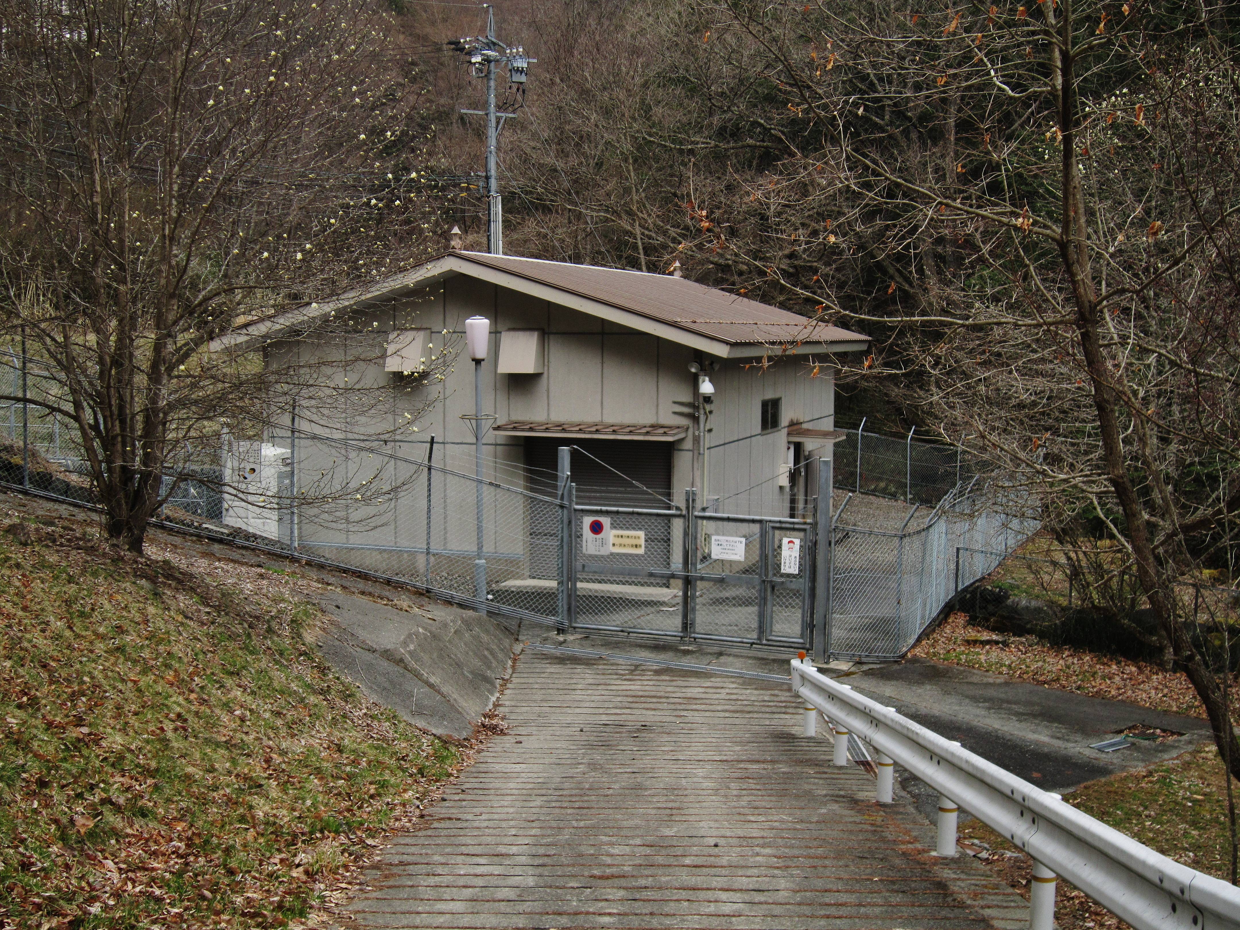 Chōgasawa power station.